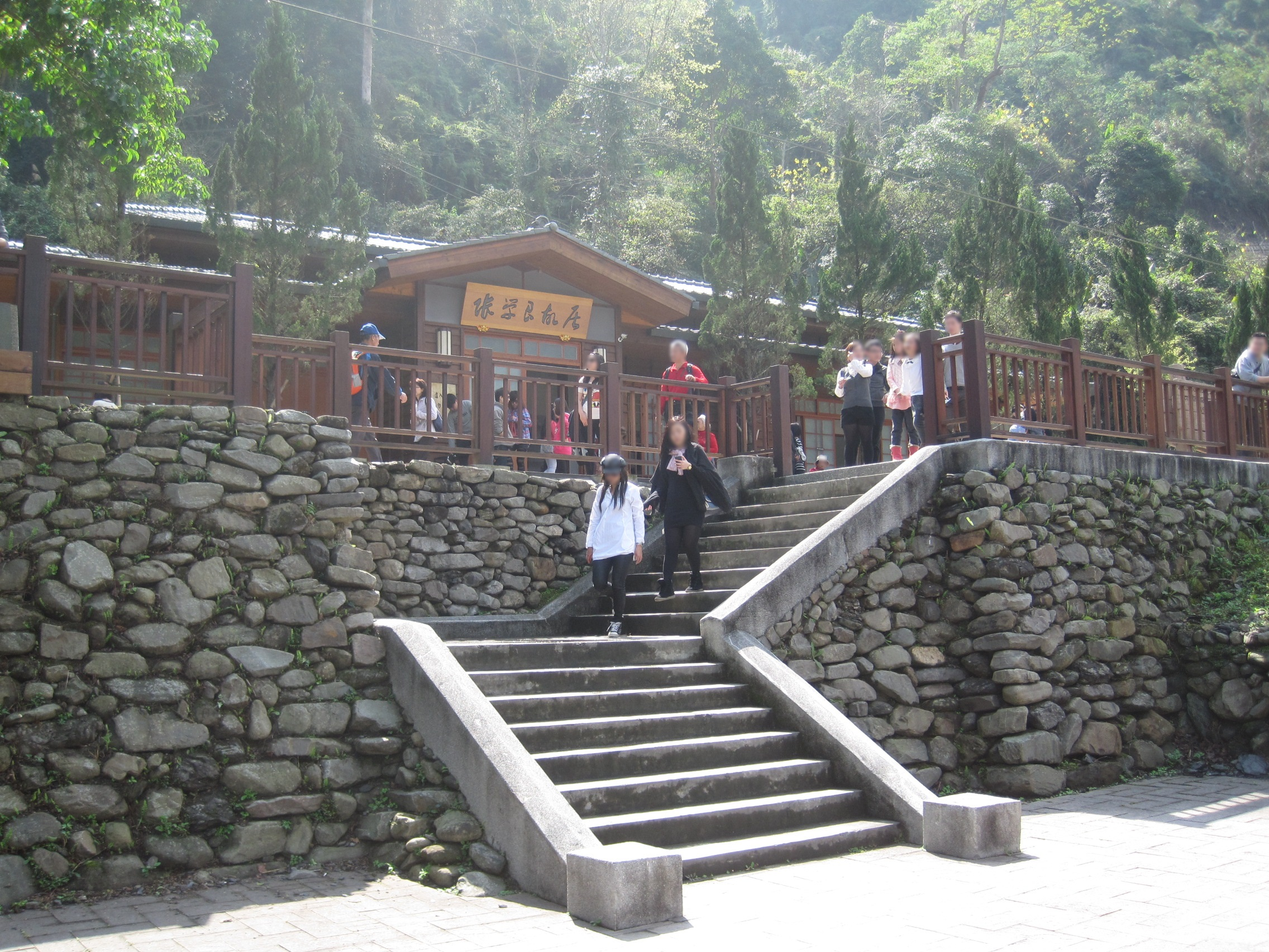 Former Residence of Zhang Xueliang